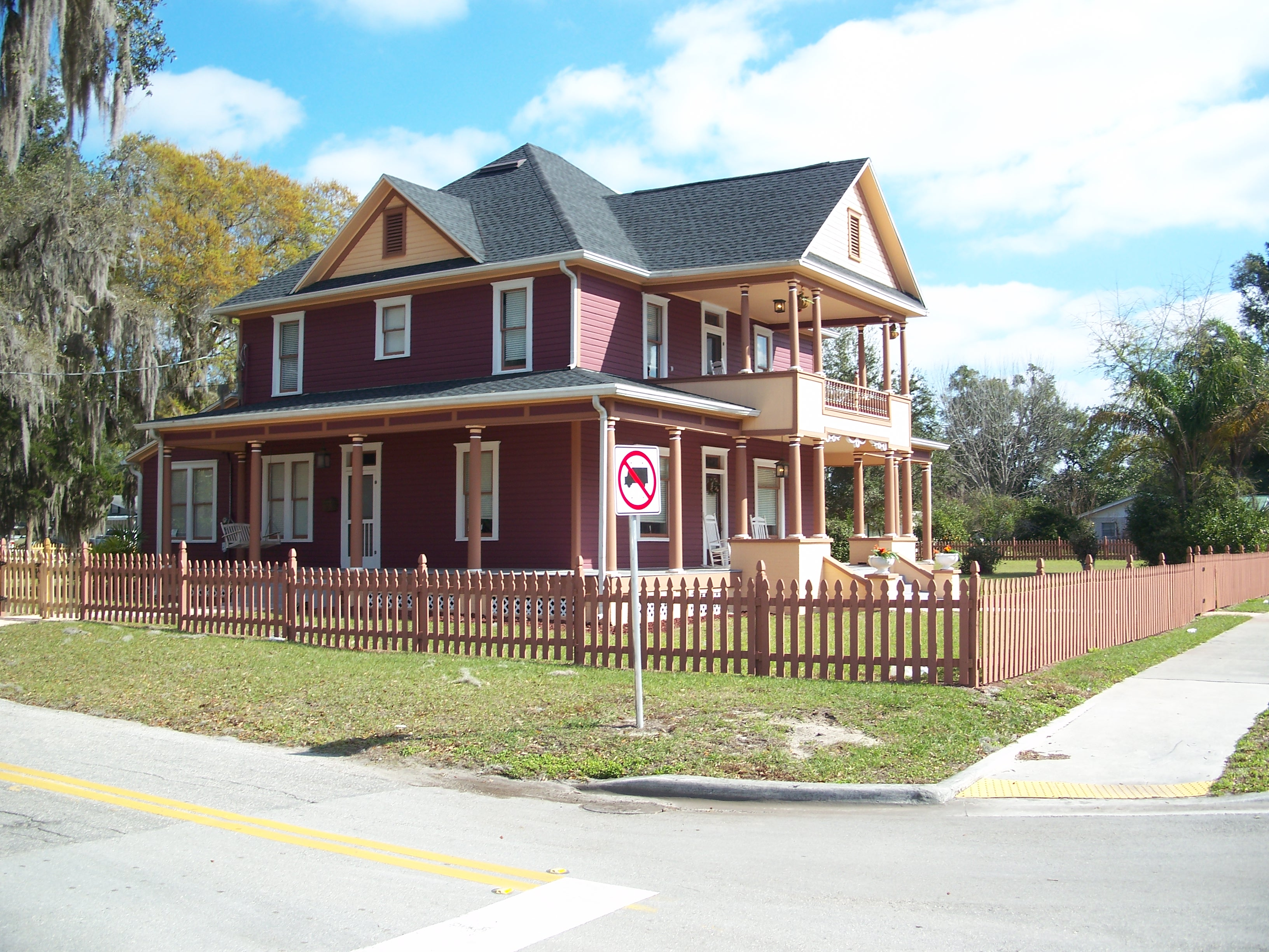 Fort Meade, Florida: Fort Meade Historic District: Reid House, in the district.